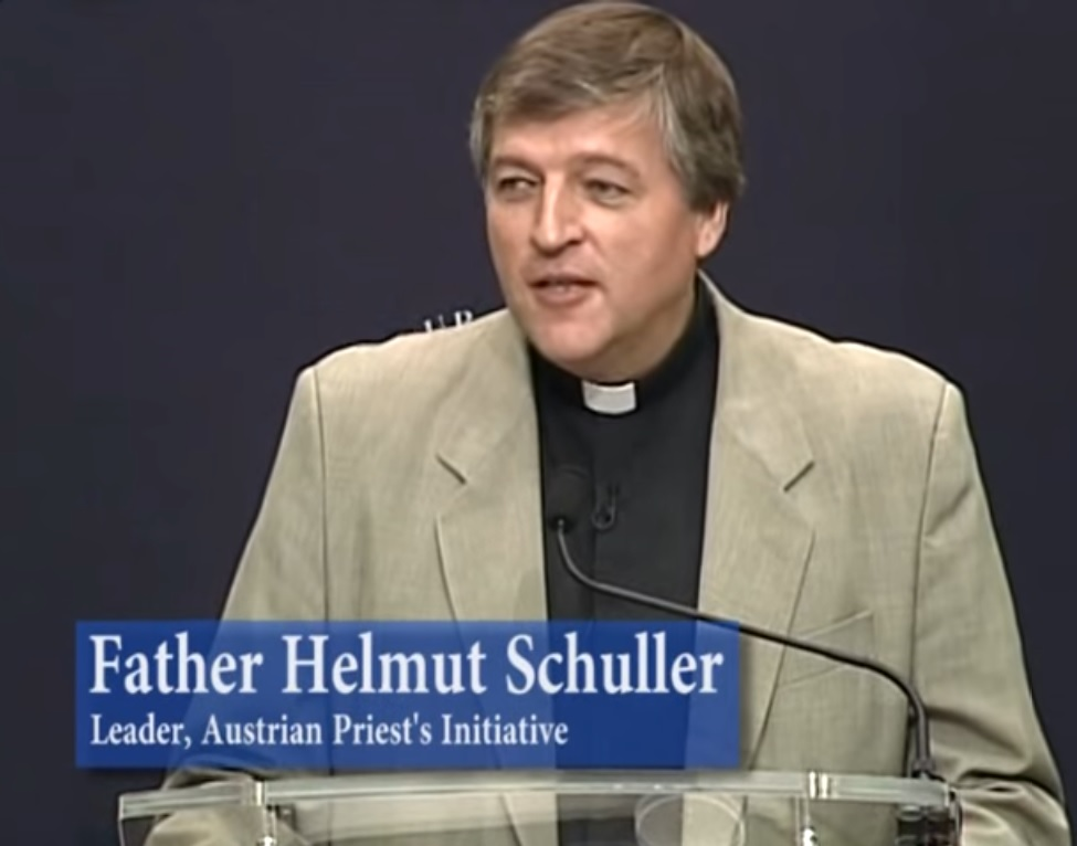 Screen capture of Helmut Schüller speaking to the City Club of Cleveland on July 26, 2013